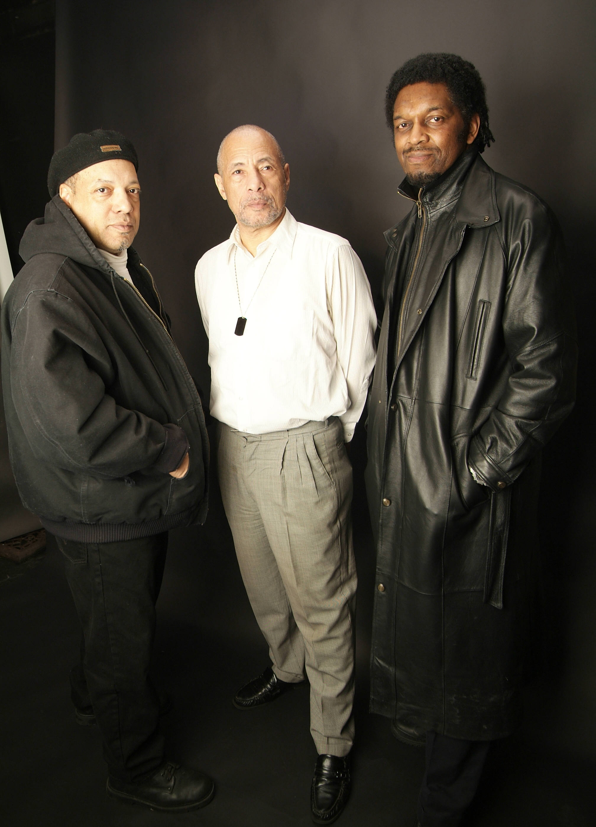 Photo Of My Band Black Merda 2008